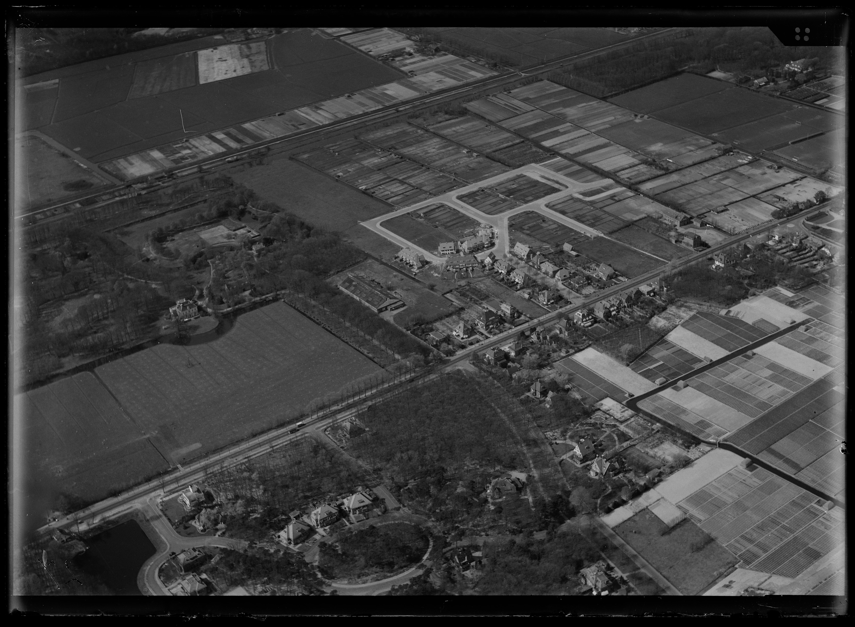 Aerial photograph of Heemstede, The Netherlands